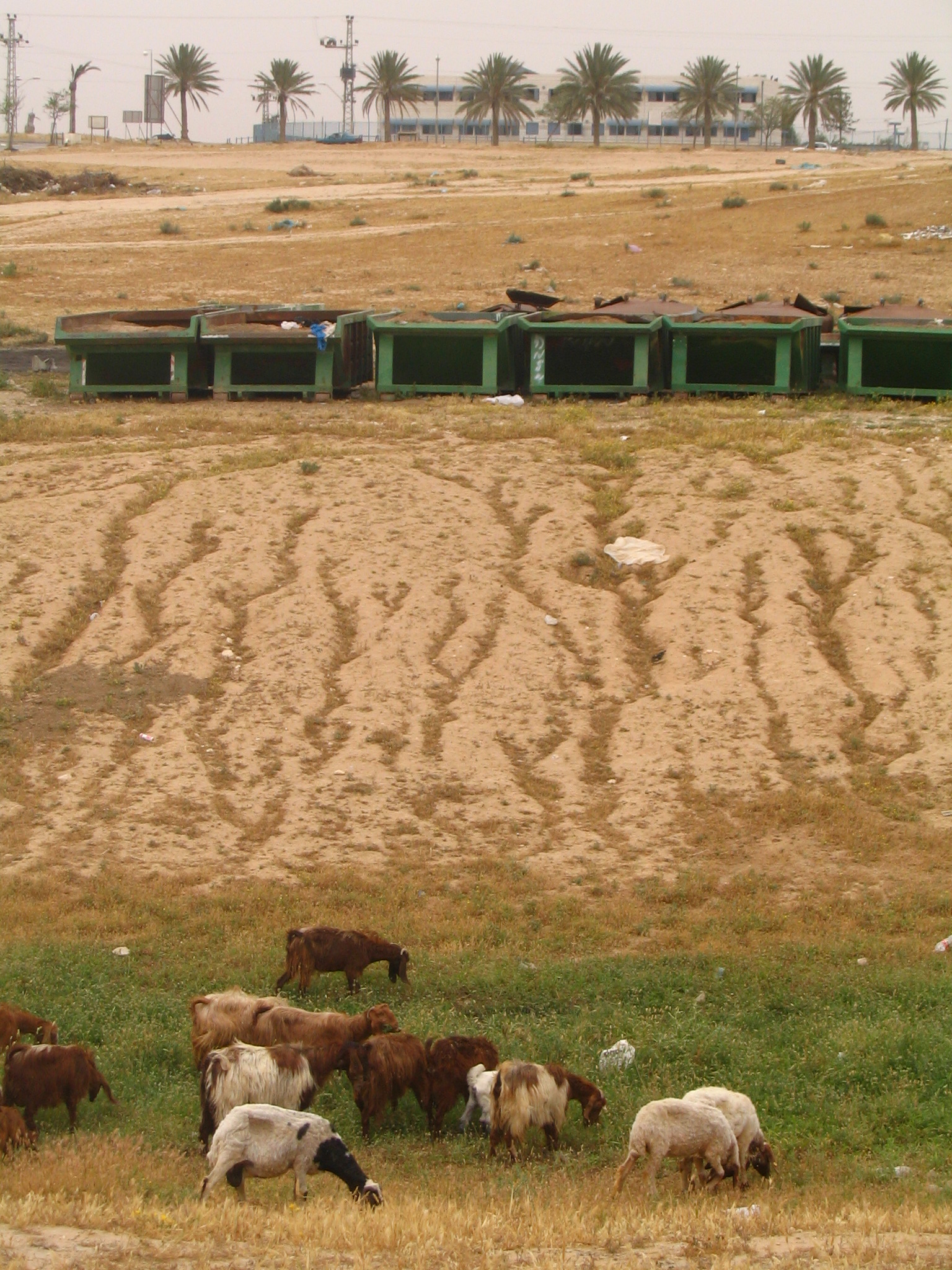 Goats grazing beneath disused garbage bins in the government township of Tel Sheva.